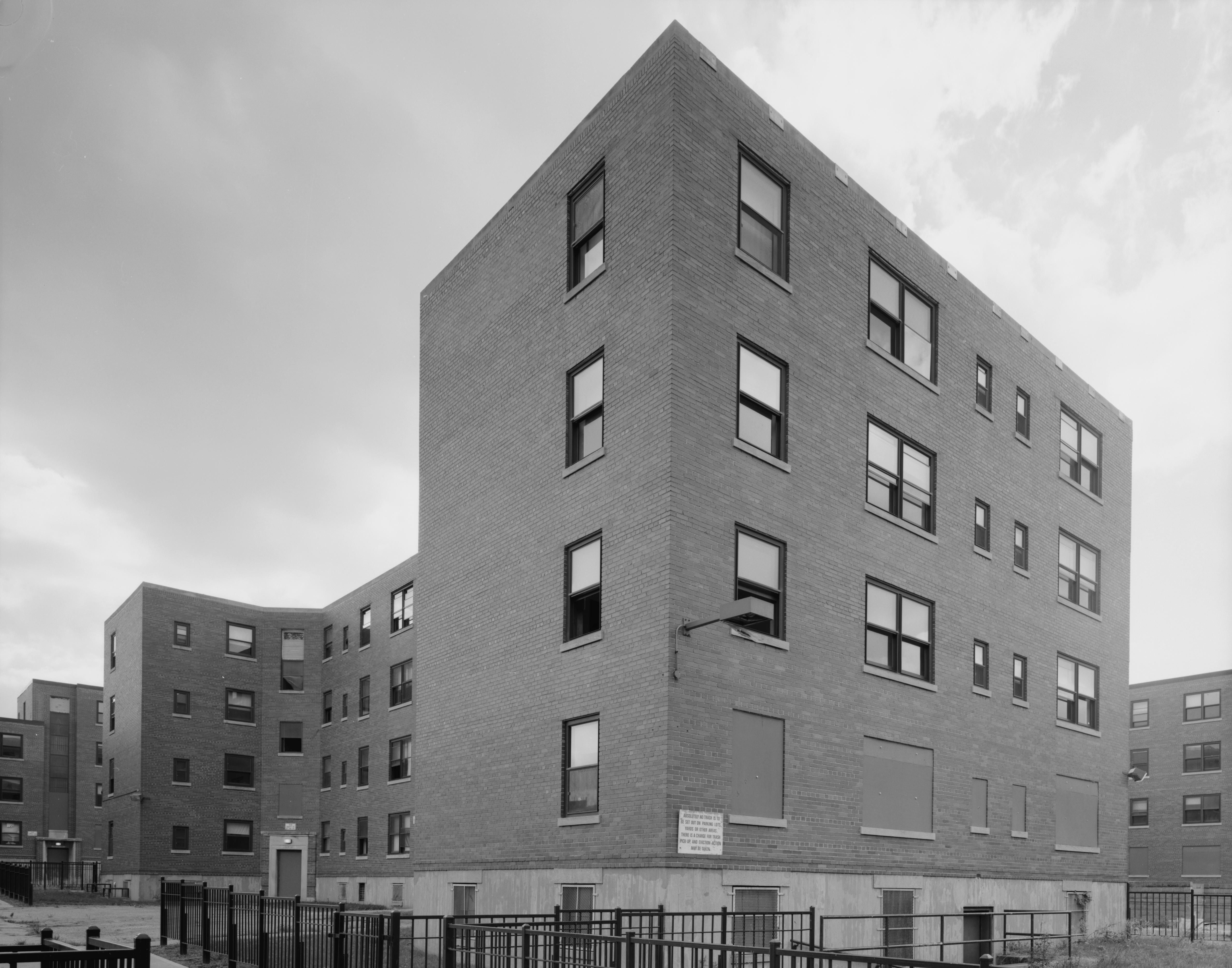 Building B in the Laurel Homes, located at 549-553 W. Liberty Street in Cincinnati, Ohio, United States. Like the rest of the Laurel Homes, it was built in 1933 as public housing by the Public Works Administration, and it is part of the Laurel Homes Historic District, a historic district that is listed on the National Register of Historic Places.